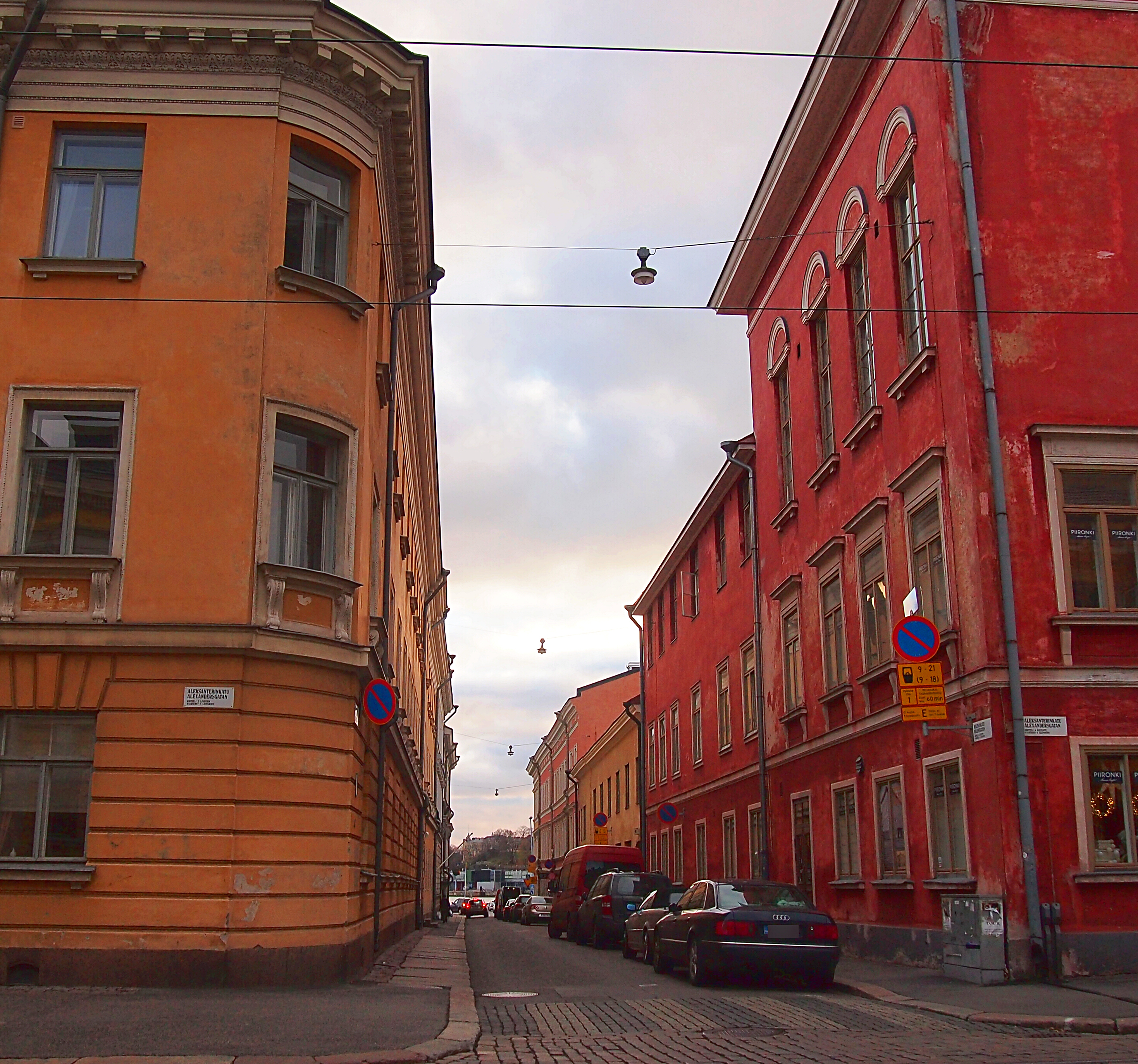 Helenankatu, Kruununhaka, Helsinki, Finland